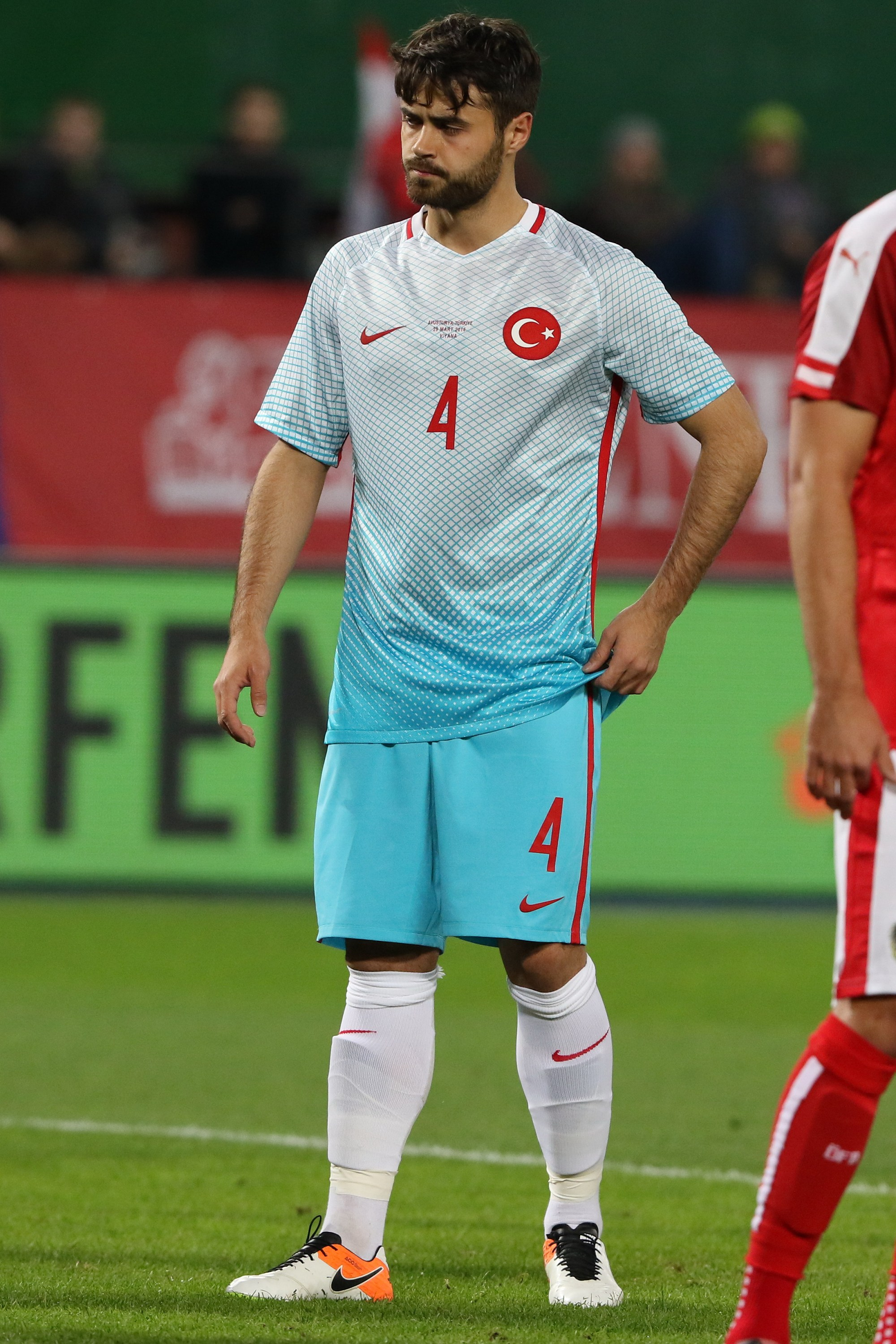 Friendly match – Austria (red shirts) vs. Turkey (blue shirts) 1–2 (1–1) on 2016-03-29 in Ernst-Happel-Stadion, Vienna – The photo shows Ahmet Yılmaz Çalık (Gençlerbirliği).